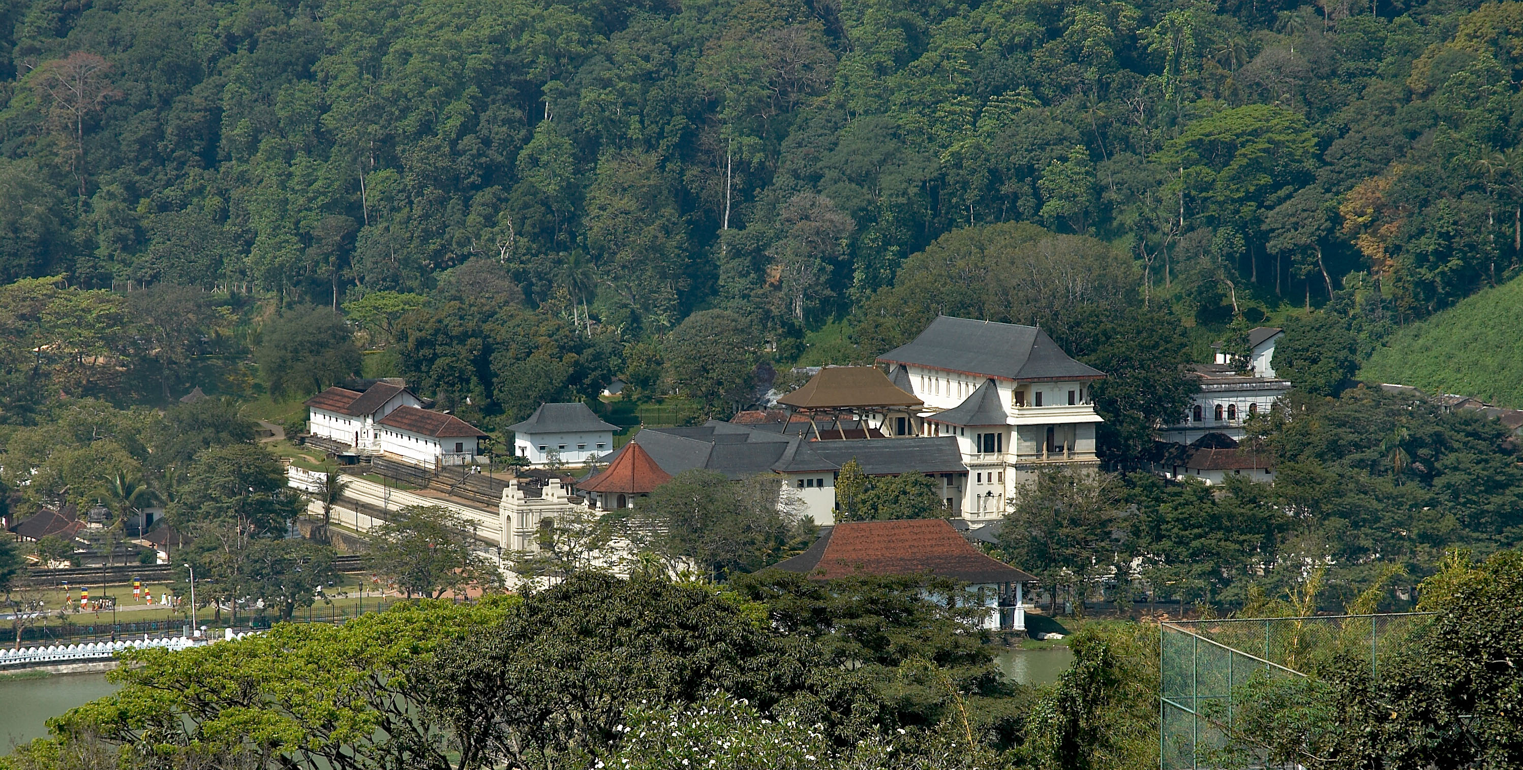 Temple Dalada Maligawa in the city Kandy in Sri Lanka. The coordinates are of the temple.